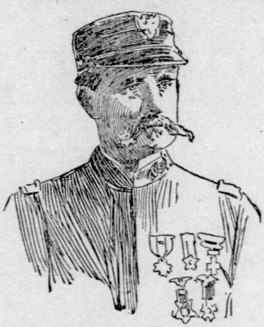 George Henry Palmer was a Union Army and US Army officer who received the Medal of Honor for heroism during the American Civil War.